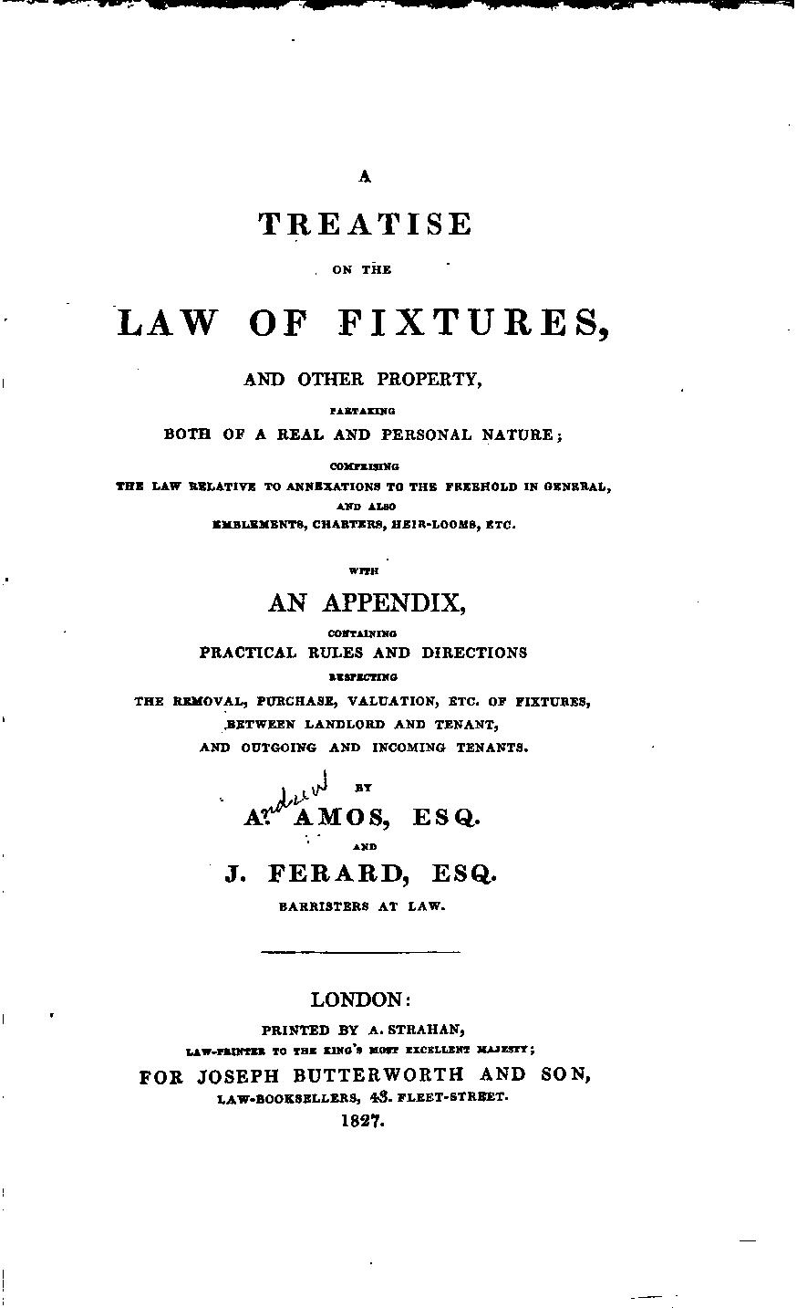 Title page of Andrew Amos (1827) A Treatise on the Law of Fixtures, and other Property, Partaking both of a Real and Personal Nature; Comprising the Law Relative to Annexations to the Freehold in General, and also Emblements, Charters, Heir-looms, etc. With an Appendix, Containing Practical Rules and Directions Respecting the Removal, Purchase, Valuation, etc. of Fixtures, between Landlord and Tenant, and Outgoing and Incoming Tenants, London: John Butterworth and Son OCLC: 60719569.